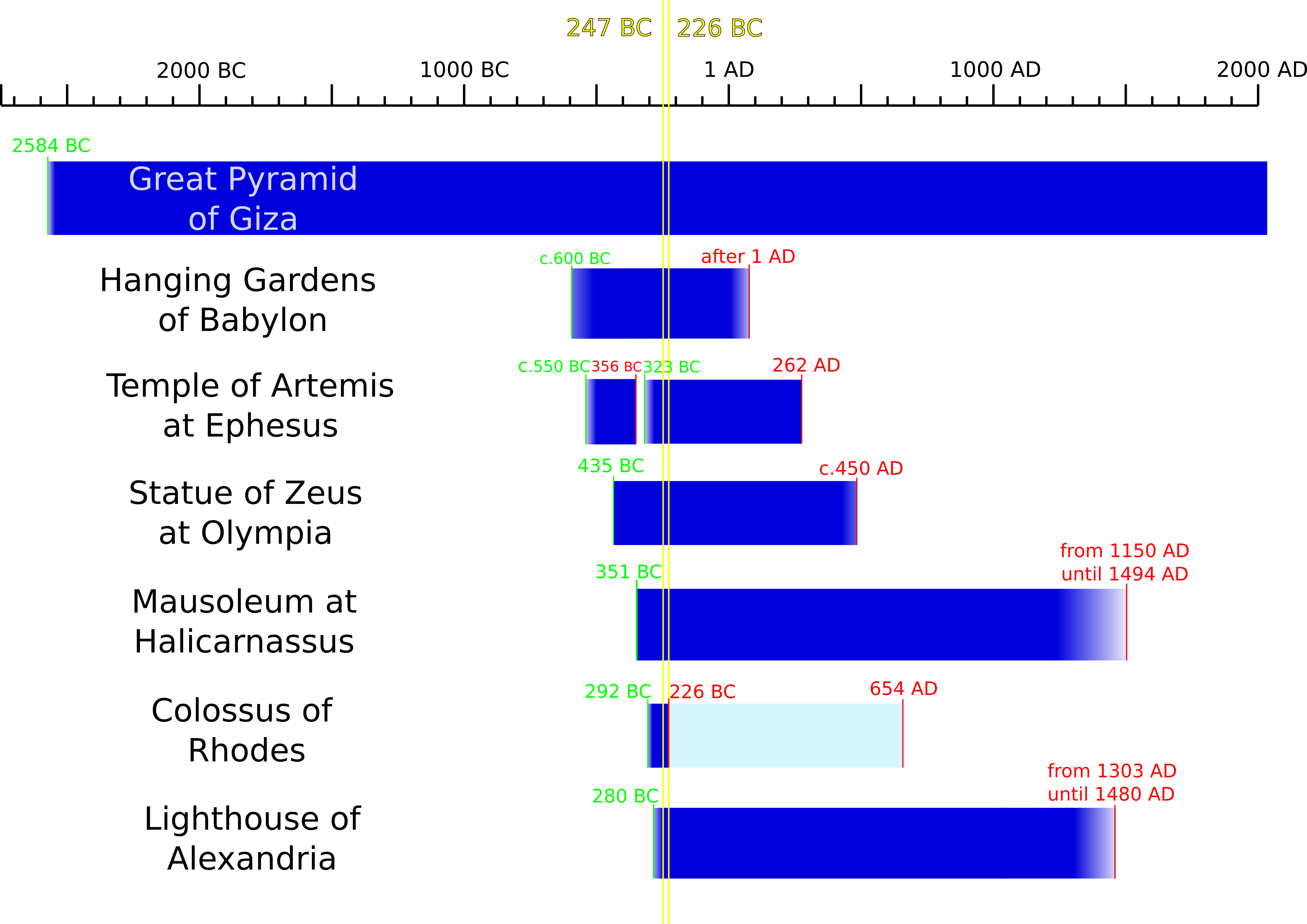 A visual timeline of the seven Wonders of the ancient world. In green, the date as of which the wonder's construction began. In red, the date (or timespan) of the wonder's destruction. In yellow, the narrow window (247 BC – 226 BC) in which all seven wonders were completed and standing. The temple of Artemis was destroyed on a see ( at Herostratus), rebuilt (starting 323 BC), and destroyed once more by the Goths roughly 600 years later. The Colossus of Rhodes collapsed following an earthquake, but the statue's remains were left untouched – for religious reasons – for nearly a millenium. In 654 AD Muslim caliph Muawiyah I looted the remains, selling them to a jewish merchant who broke them in pieces and carried them away with 900 camels. A glitched .svg version is available here (have fun!)